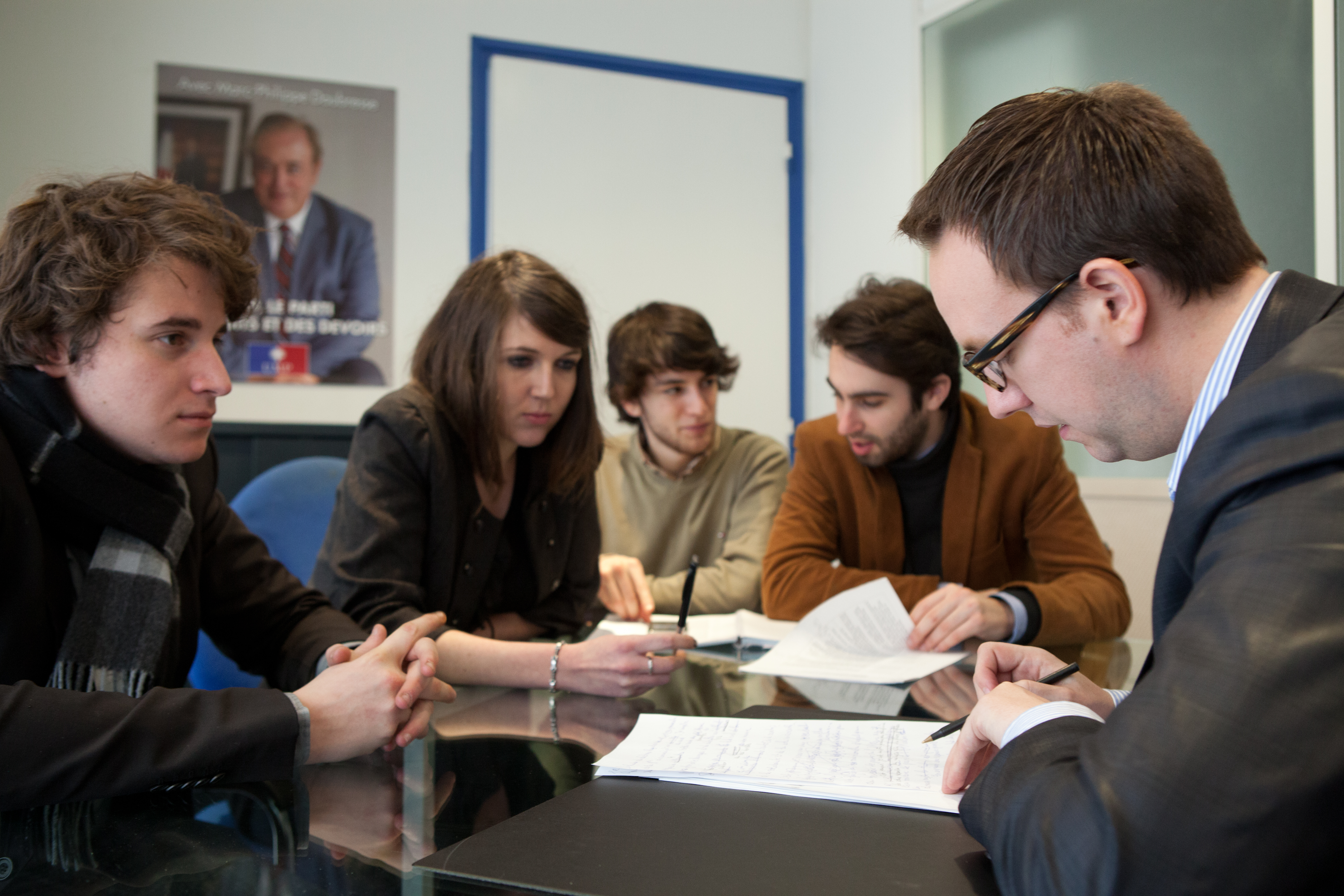 L'Equipe de campagne au travail